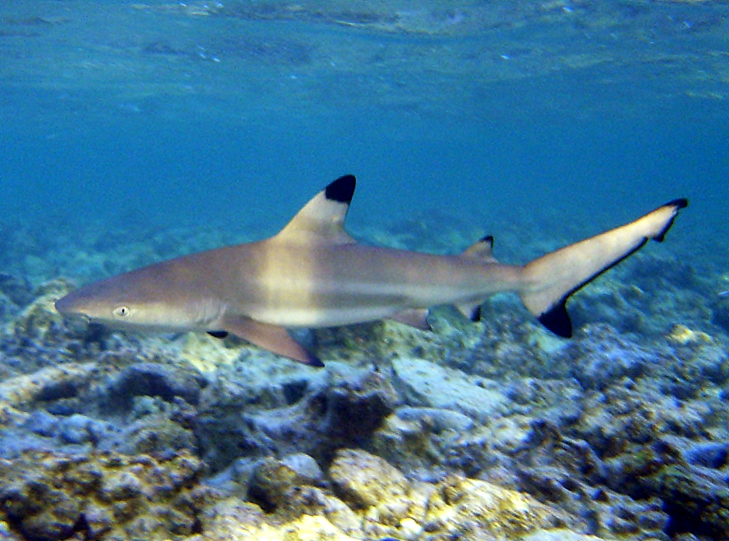 Blacktip reef shark (Carcharhinus melanopterus) off Guam, Marianas Islands (cropped from original).